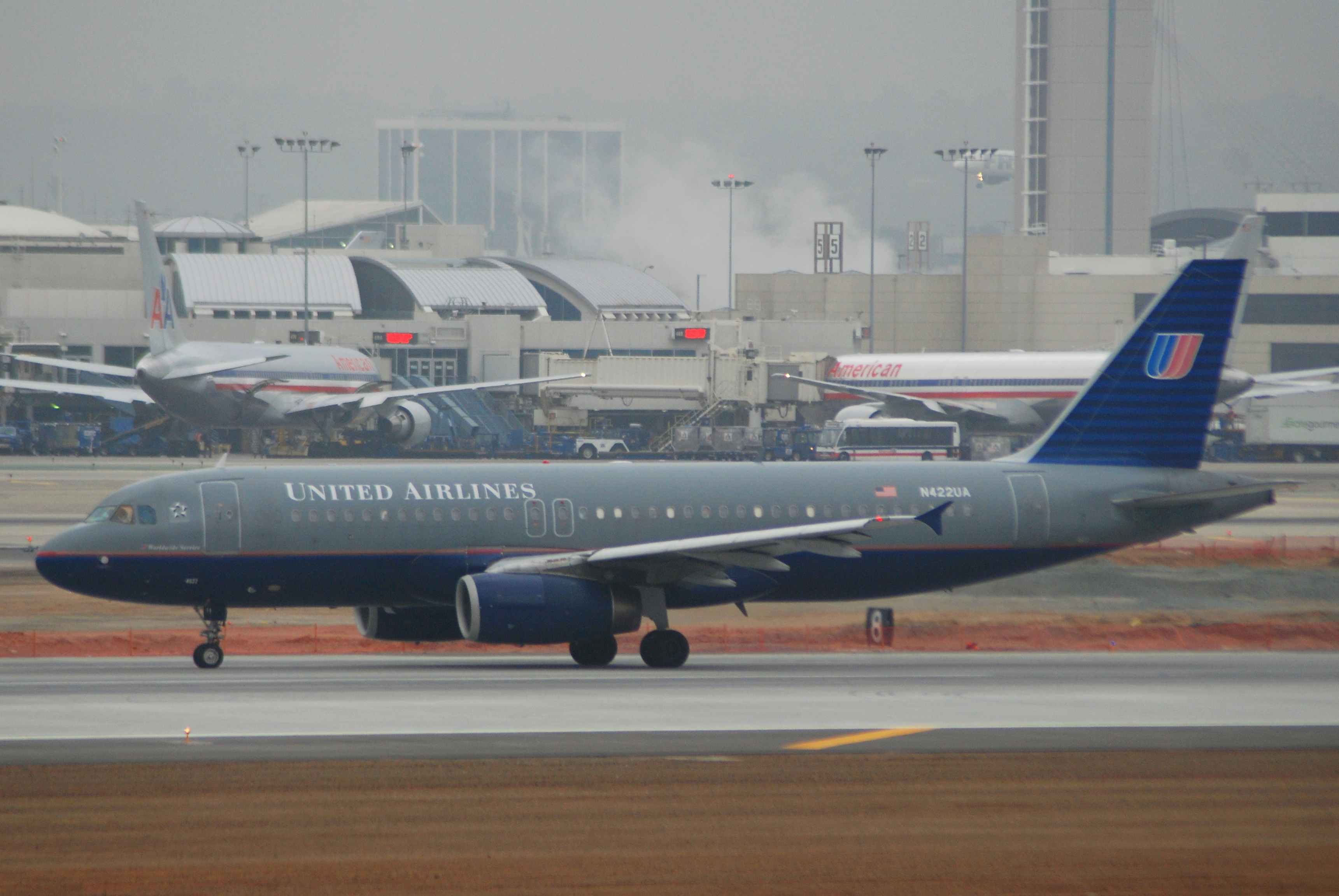 First flight: October 24, 1994 and delivered to UA on January 19, 1995...(c/n 503)